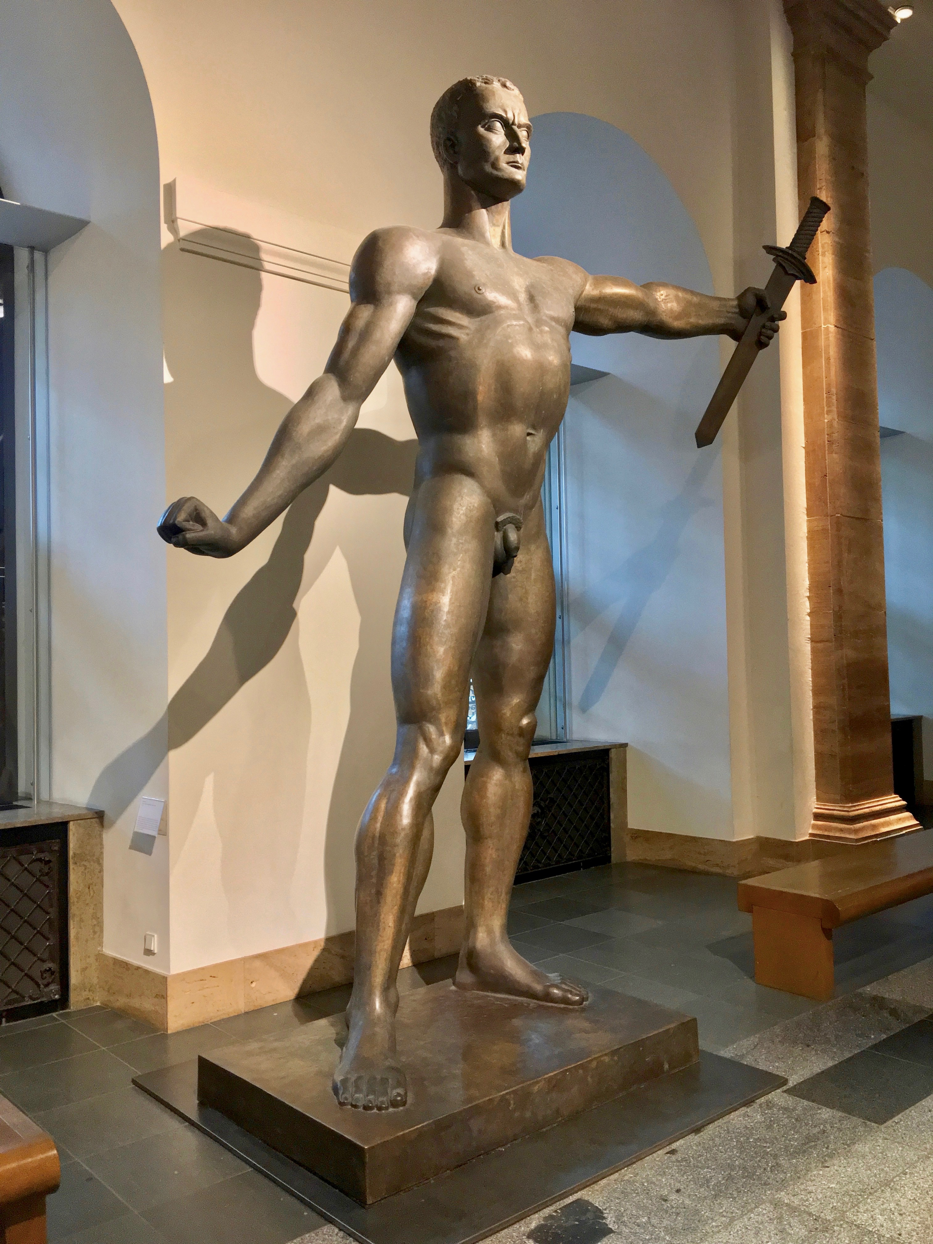 Anonymous replica made ca. 1980 based on "die Wehrmacht" ("Schwertträger"), a statue orginally sculpted by Arno Breker (1900 – 1991) 1938-39 for the New Reich Chancellery in Berlin in then Nazi Germany, taken down after World War II. This version stands on public display before the ticket counter in the foyer of Deutsches Historisches Museum in Berlin. The recreated copy is not original art. No known copyright restrictions. Smartphone photo 13 october 2019. Der Innenhof der Reichskanzlei in Berlin September 1940